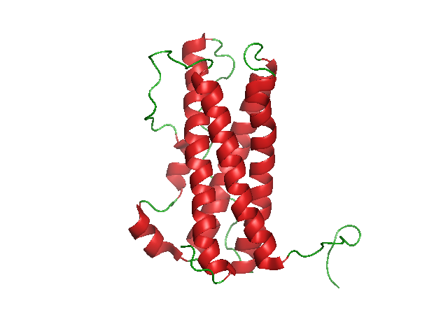 Structure of the hormone prolactin